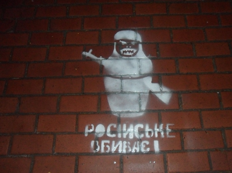 Graffiti depicting armed Matryoshka doll and the words "Russian goods kills" in Lviv, Ukraine. It is in the public domain in accordance with the principle of "Vidsich" "Copyleft" [2].